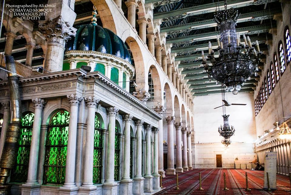 Damascus Old City 2017 Oumayad Mosque